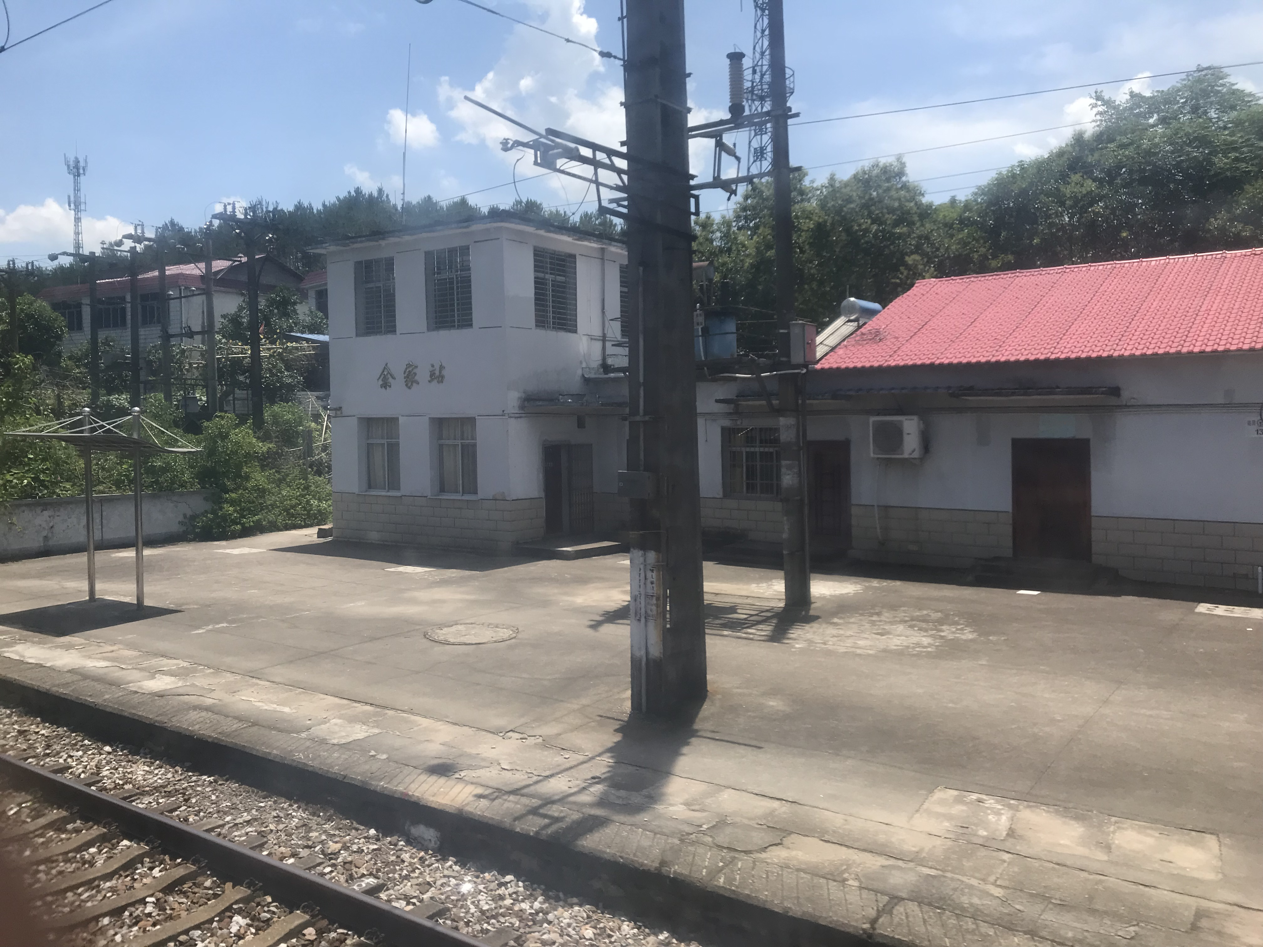 201806 Station Building of Yujia Station